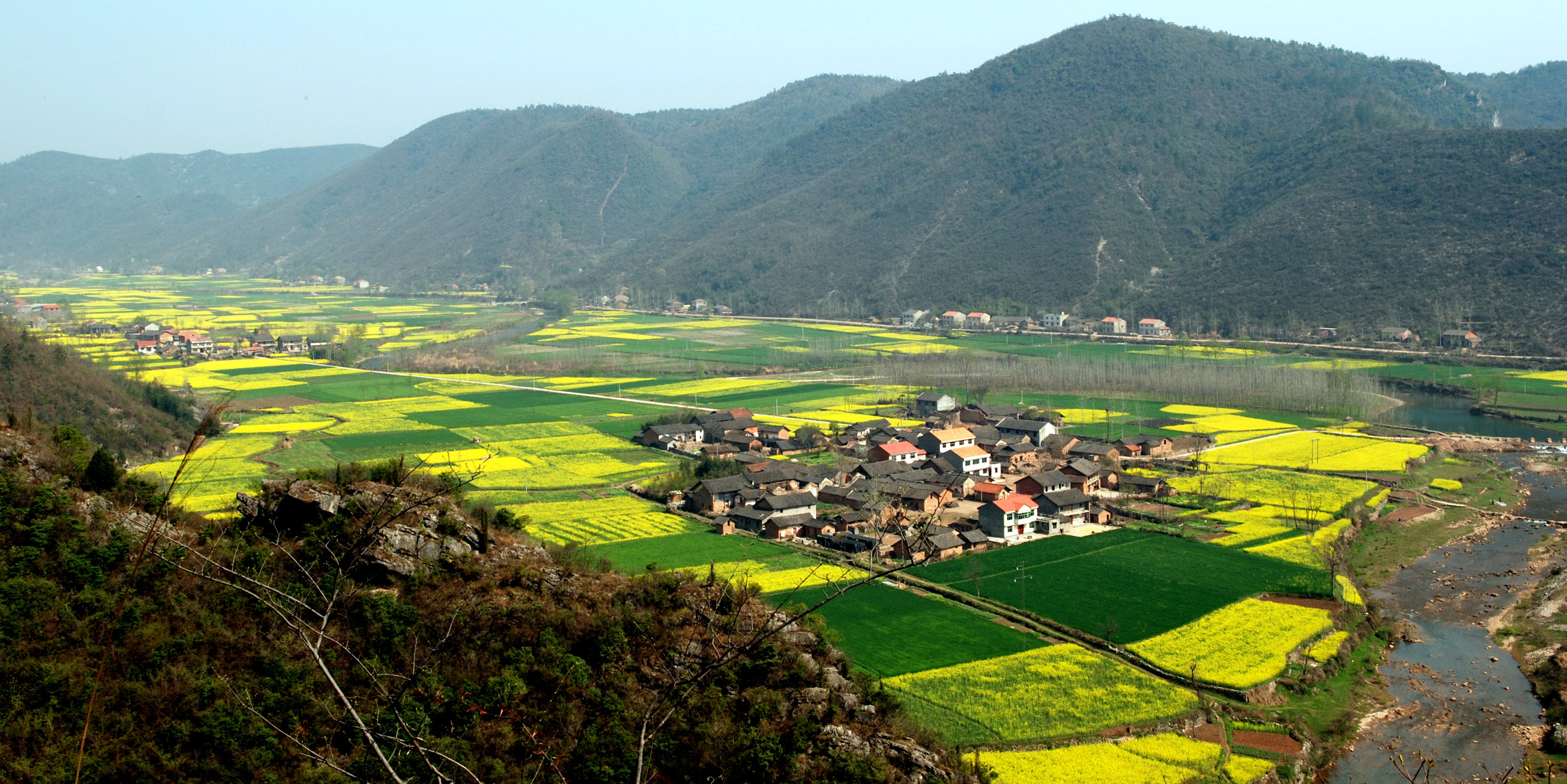 nanzhangtianyuan